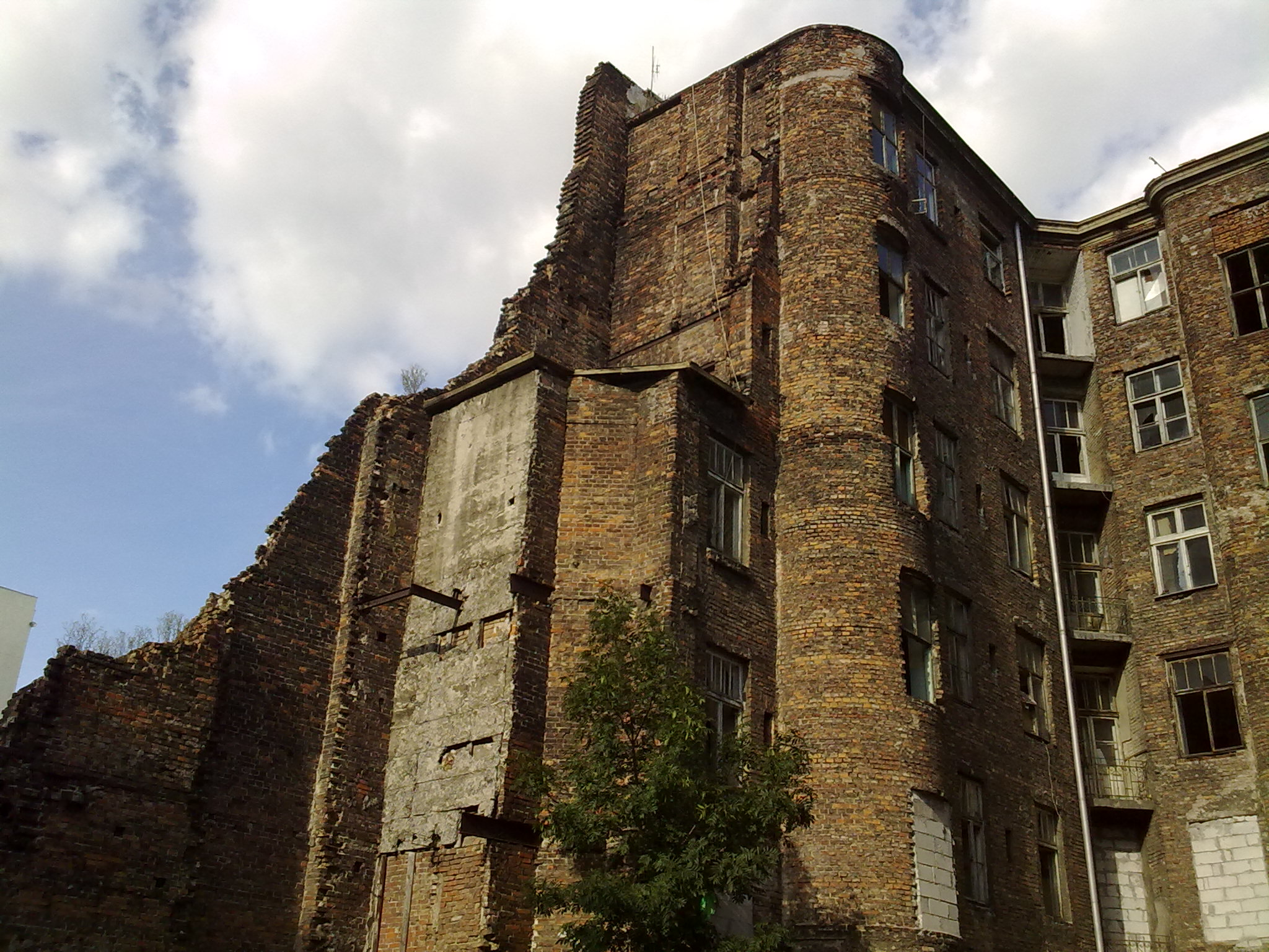 building from Warsaw Ghetto